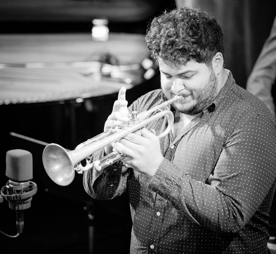 Adam O’Farrill with Arturo O’Farrill Quintet at Victoria Teater. The concert was part of Oslo Jazzfestival and took place on 14. August 2018 in Oslo. Lineup:Arturo O’Farrill (piano)Adam O’Farrill (trumpet)Zachary O’Farrill (drums)Boris Koslov (double bass)Chad Lefkowitz Brown (saxophone)